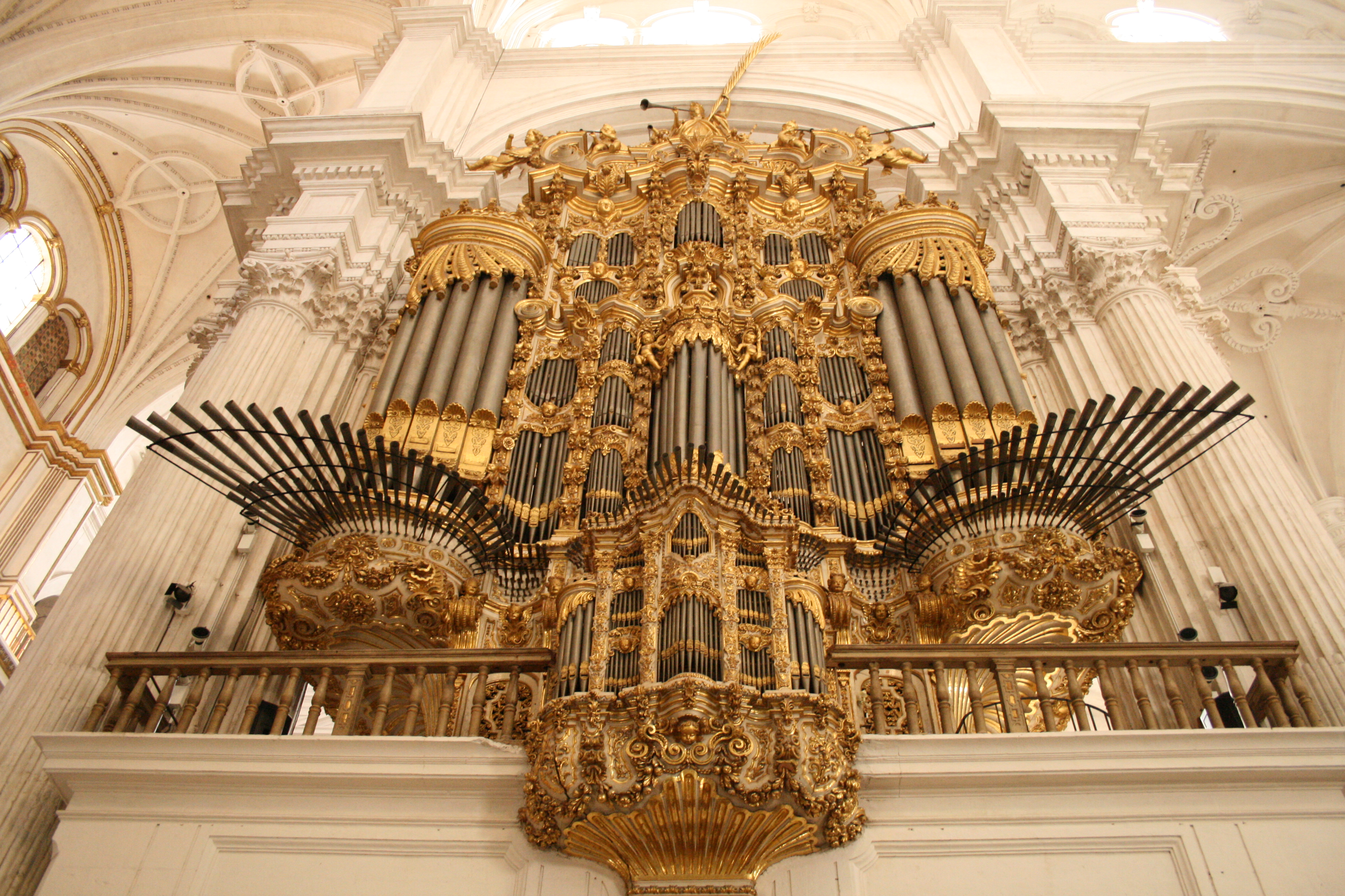 Organ at Granada Cathedral